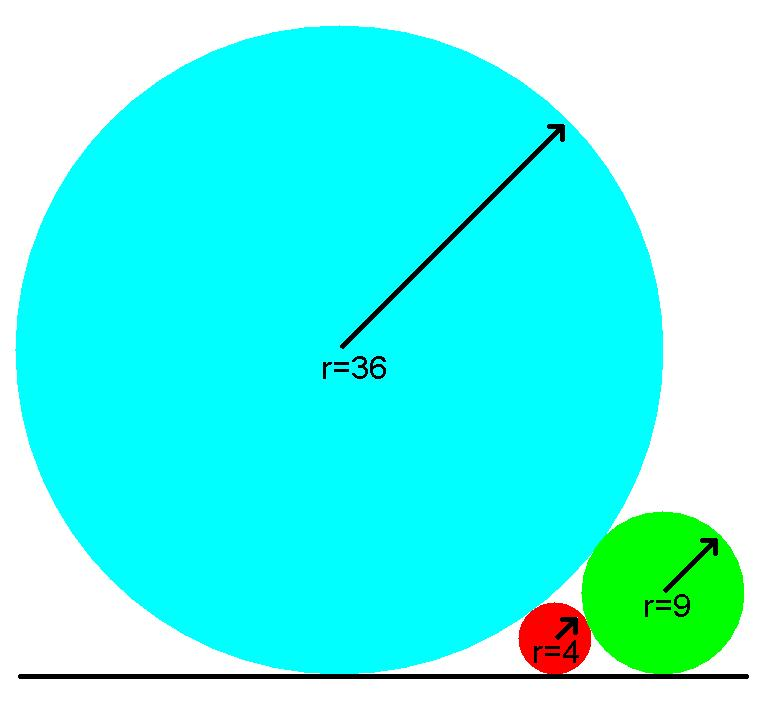 A sangaku puzzle in which three circles share a tangent and the outer two large circles touch while a small circle just fits between them. Given the radii of the large circles are r_left=36 and r_right=9, the radius of the small circle must conform to 1/sqroot(r_middle)=1/sqroot(r_left)+1/sqroot(r_right). In this case, 1/sqroot(4)=1/sqroot(36)+1/sqroot(9), or 1/2=1/6+1/3.